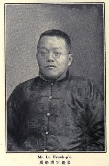 Lu Xuepu (1877-？)